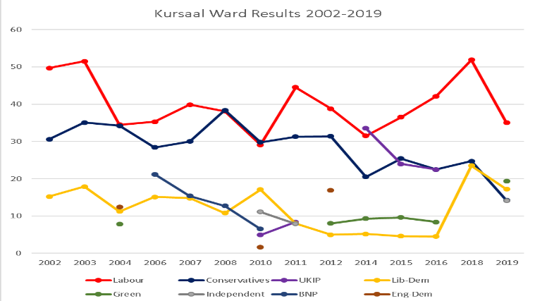 a graph to display information shown in the page